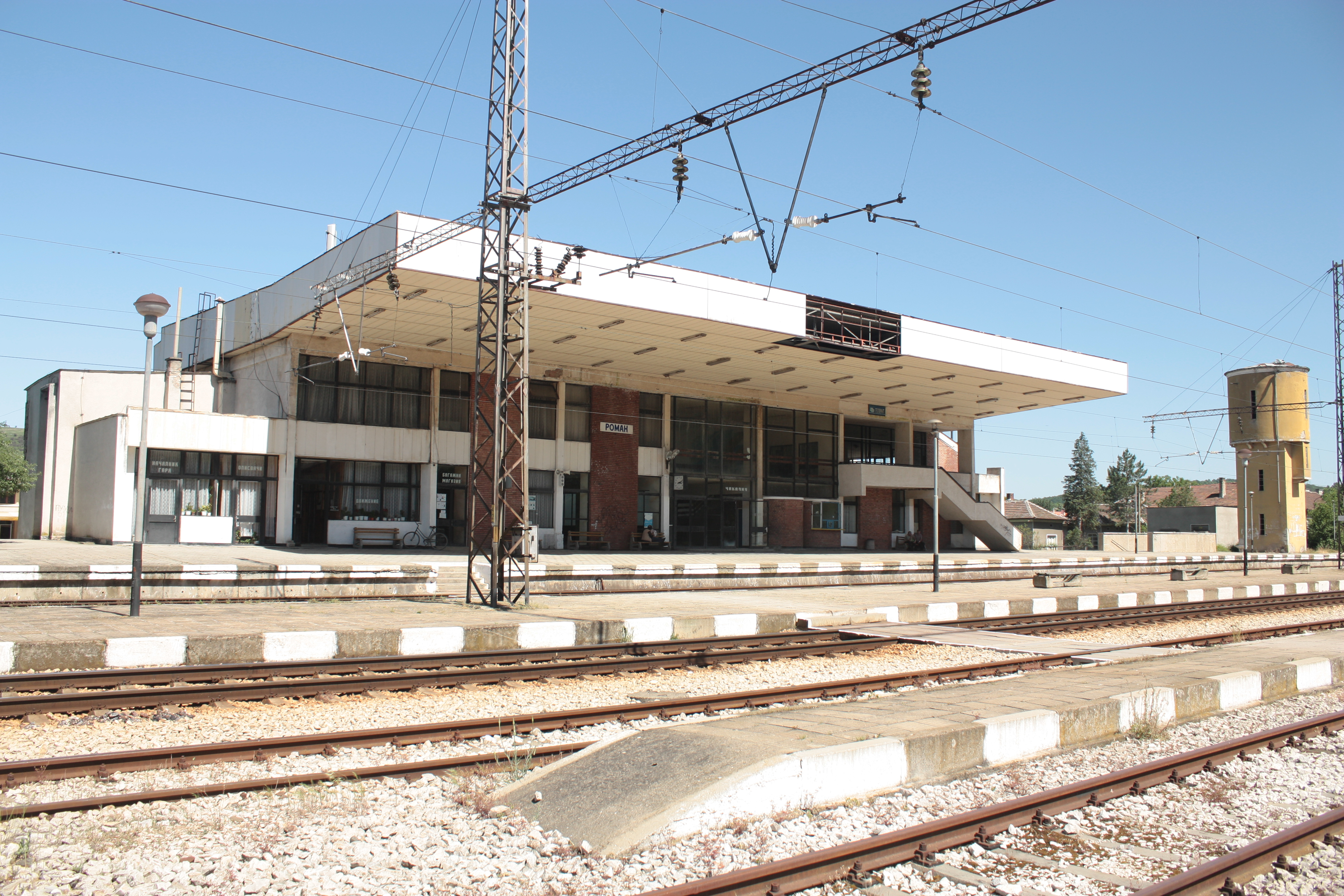 Roman rail-road terminal